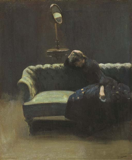 Source: Scanned from Sickert, by Lillian Browse and Reginald Howard Wilenski, Faber and Faber, London, 1943. Date: 1885 - 1886 Painter: Walter Richard Sickert, A.R.A. (1860-1942) Title: The Acting Manager or Rehearsal: The End of the Act Description. Oil painting of Helen Carte. According to the Christie's website, a 1992 exhibition catalogue described the painting as: "A portrait study of Miss Helen Couper-Black, general manager of the D'Oyly Carte Opera Company, collapsed on a sofa in exhaustion" after a rehearsal. The Christie's website says: "It is tempting to believe the rehearsal pinpointed in Sickert's title was of Whistler's Ten O'Clock Lecture, several presentations of which Miss Couper-Black staged in 1885.... This painting is an early example of Sickert's arbitrary use of titles. Its original title, reminiscent of a ballet scene by Degas, was especially misleading.... The painting is now known as The Acting Manager, the title of an earlier etched portrait, dated 1884 and shown at the Royal Academy Summer Exhibition of 1885, of Miss Couper-Black.... Only the sitter and the lamplit effects of the interior are common to both etching and painting." Much more information about the painting is available here.